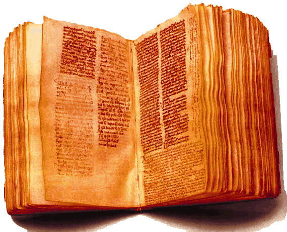 Old Hungarian Mary-lamentation in the Leuven-Codex (14th century; oldest existing poem in a Finno--Ugric language)